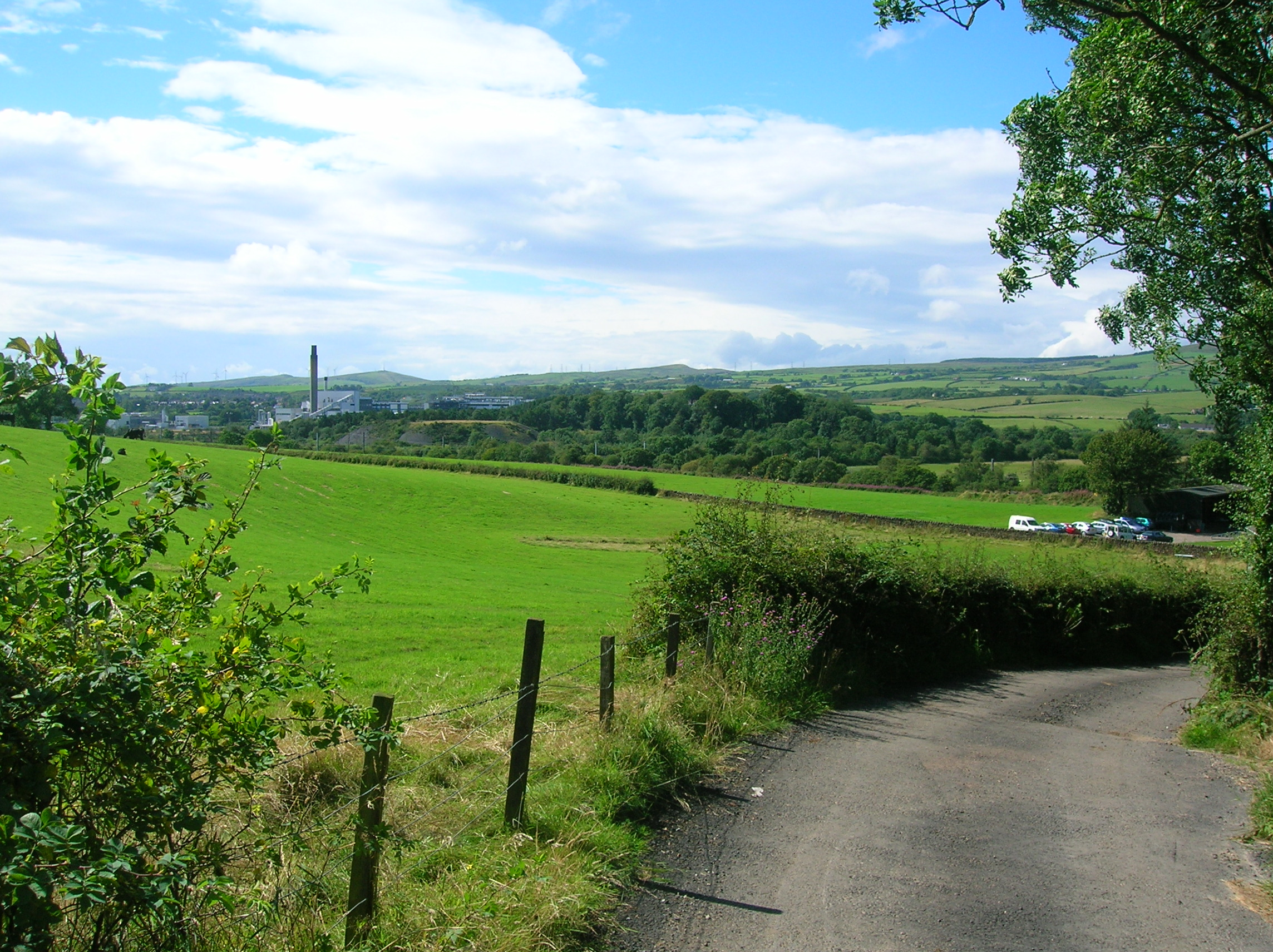 Dalry and Pitcon woods from East Kersland Lane, North Ayrshire, Scotland.